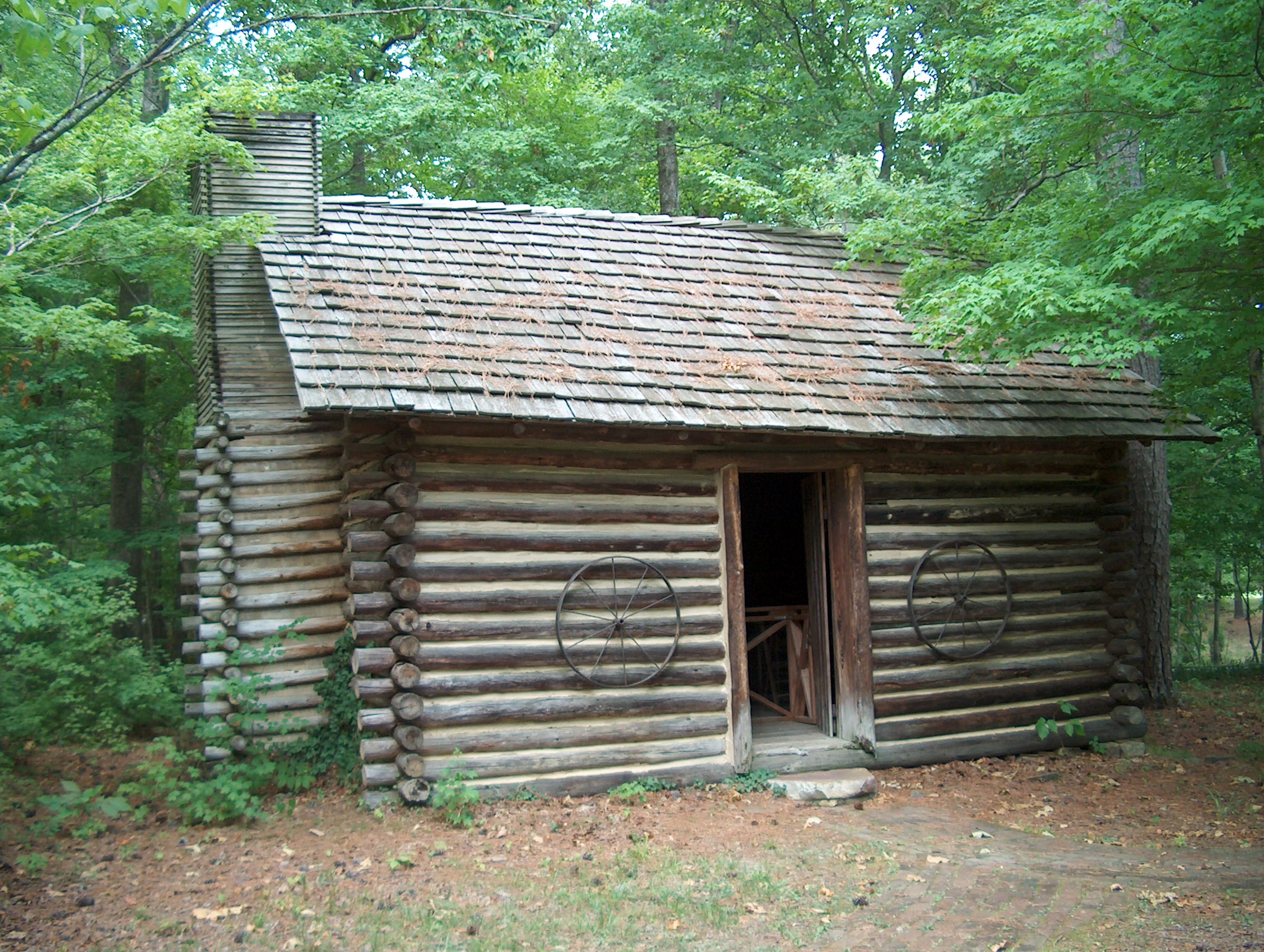 First Berry School thatw as founded by Martha Berry.